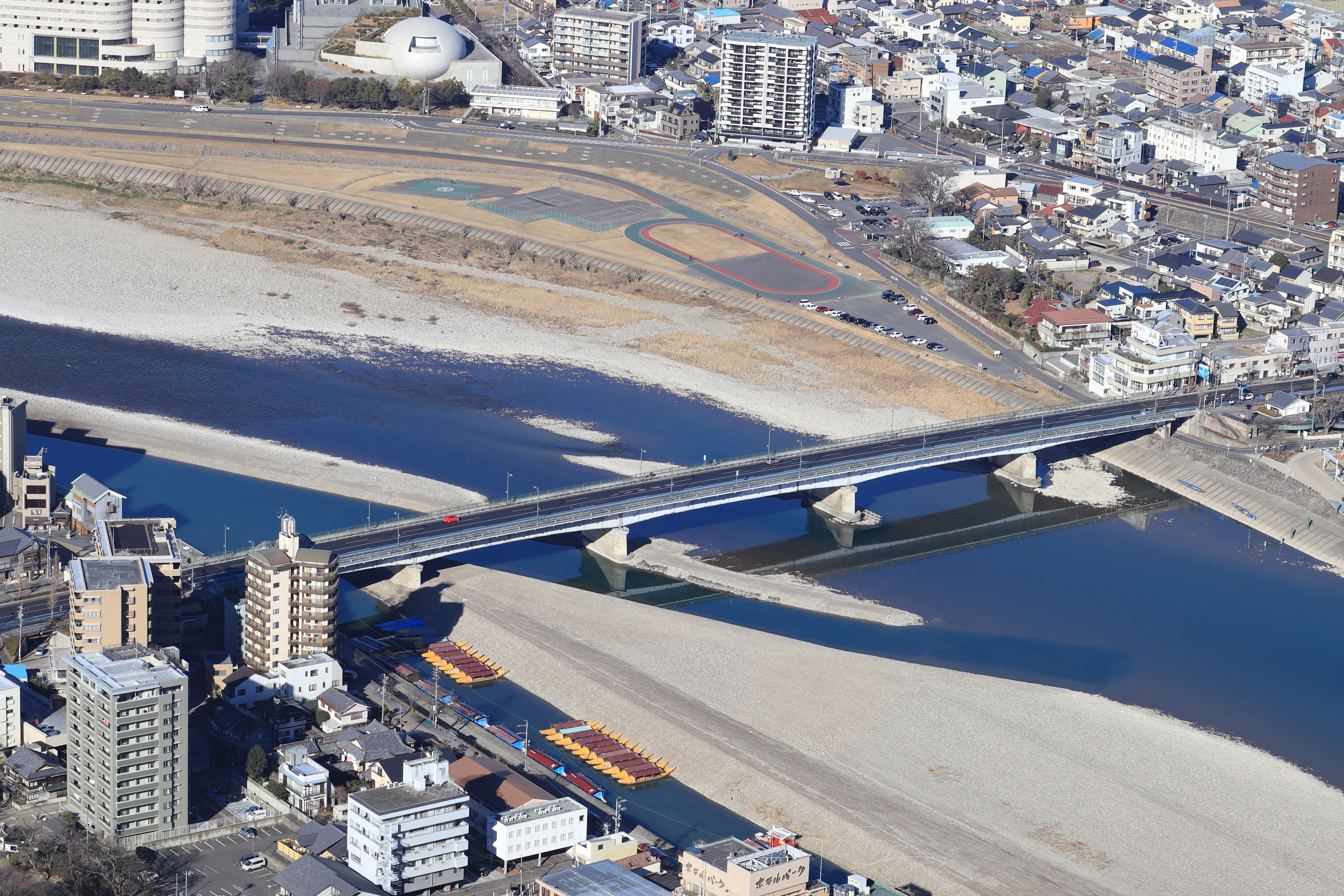 Nagara Bridge seen from Gifu Castle on Mount Kinka in Gifu City, Gifu Prefecture, Japan. Canon EOS Kiss X9